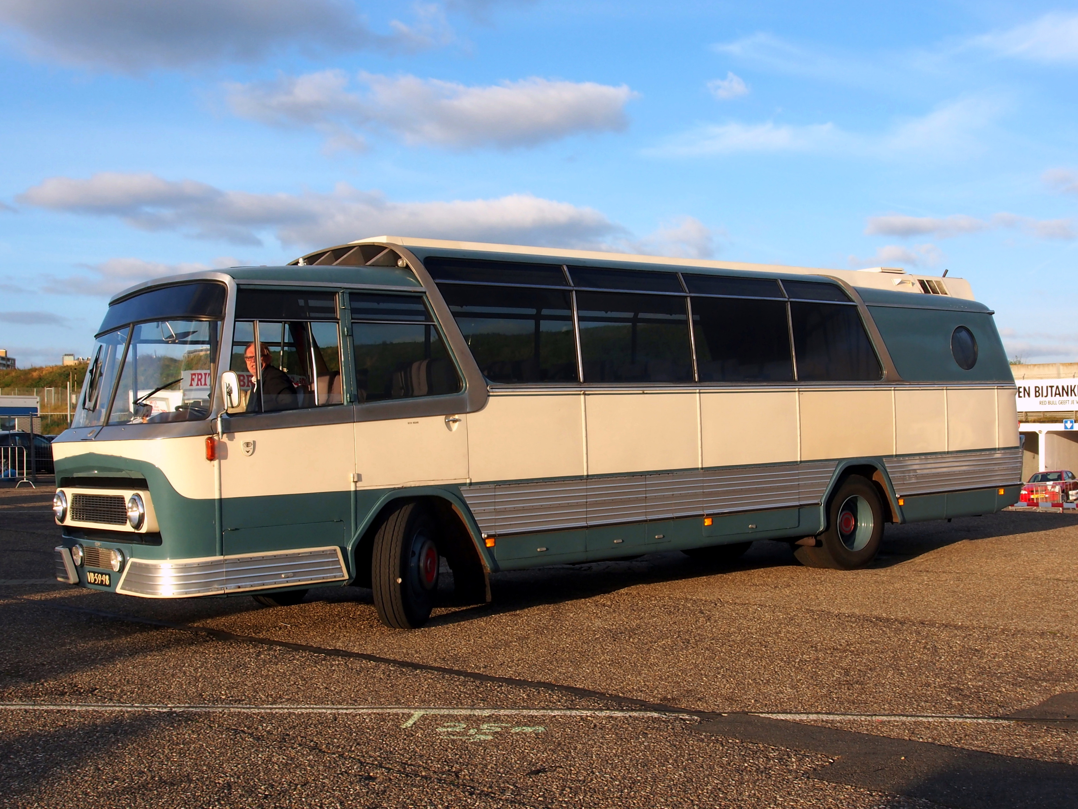 Photographed at the Nationaal Oldtimer Festival Zandvoort 2012. 1963 Leyland Royal Tiger Cub autobus.